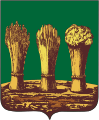 Penza (Penza oblast), coat of arms (2001)